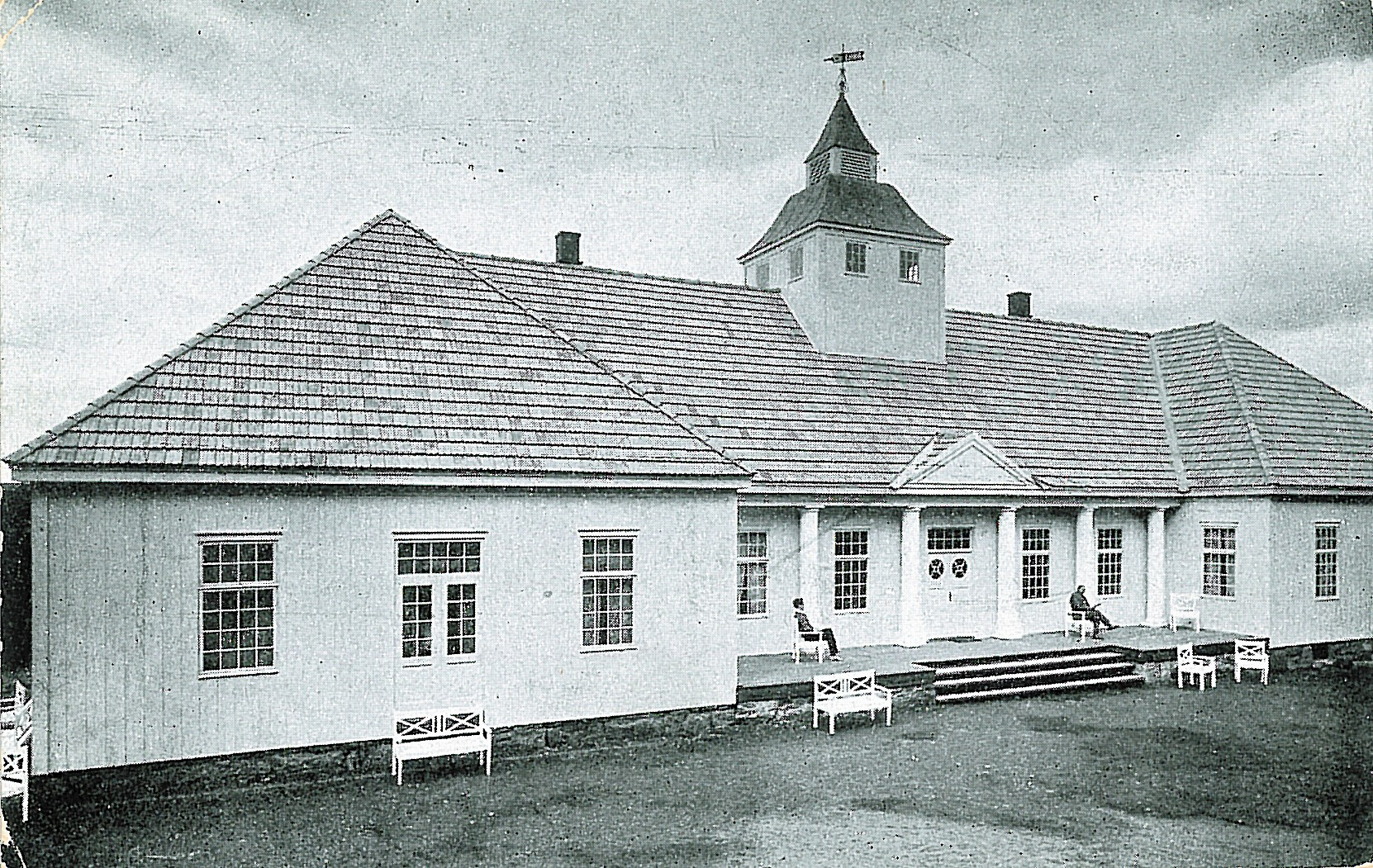 Langesund bad